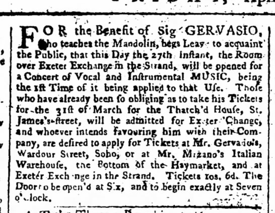 Mandolinist Giovanni Battista Gervasio advertised in The Public Advertiser London, Greater London, England 27 Apr 1770, Fri • Page 1.